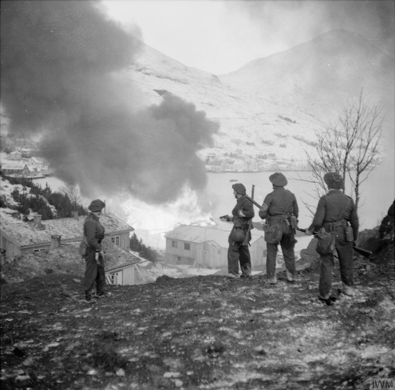 Raid on Vaagso, 27 December 1941 Commandos watch as an ammunition dump burns.